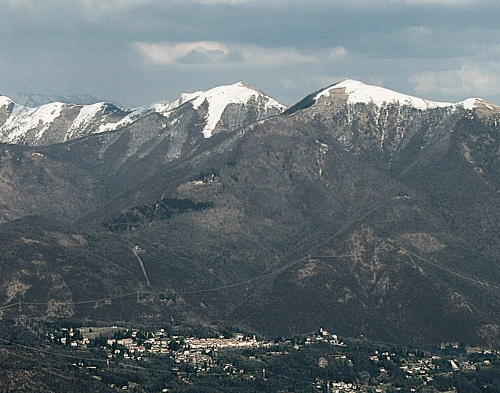 Monte Lema seen from Piancavallo (VB)